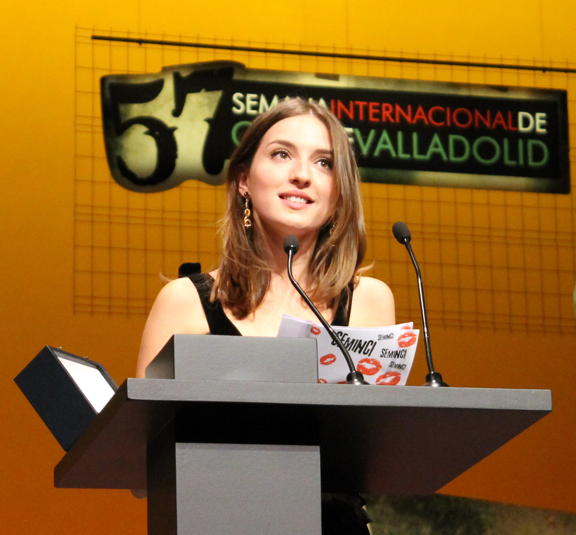 María Valverde, Spanish actress.